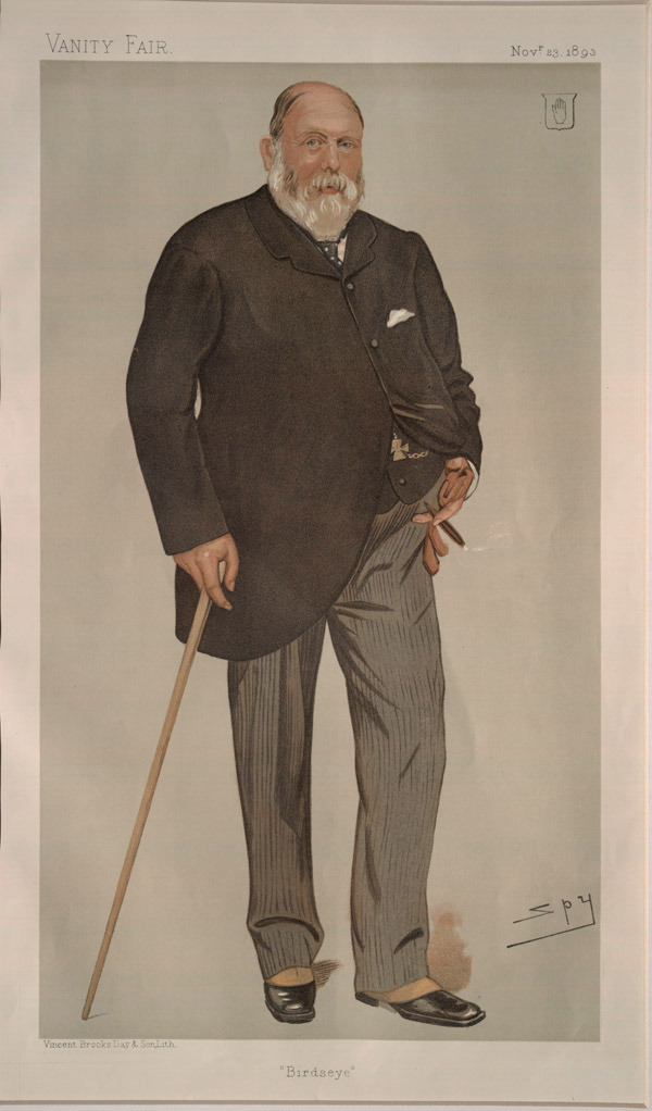 Men of the Day No.575: Caricature of Sir WH Wills Bt. Caption reads: "Birdseye"